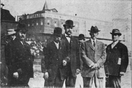 From left to right - Judge Wm M. Kavanaugh, President of the Southern League; Ex-Major James S Brown, Mr. F. E. Kuhn, President Nashville Baseball Club; Mr. R. J. Chambers, former Presdent Montgomery Baseball Club; and Alfred Williams, a Baseball Enthusiast of Nashville